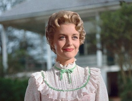 Constance Towers in the war film The Horse Soldiers (1959).